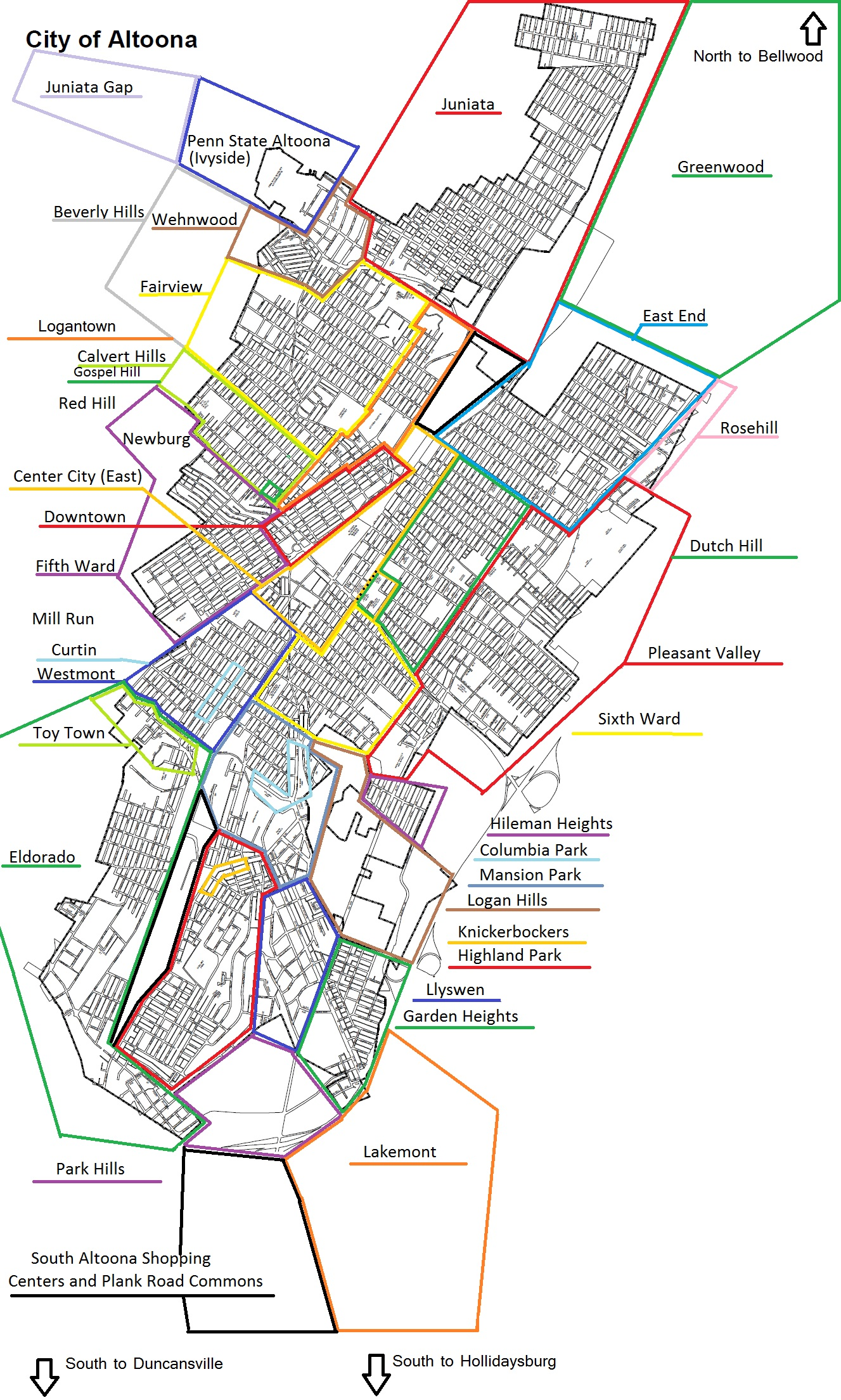 Crude map of the Altoona City sections and neighborhoods. The area of drawn streets represents the City borders as of 6/2012. Areas to the West, North, East and Southeast are in Logan Township, and Southwest is Allegheny Township. Updated 9/2012.